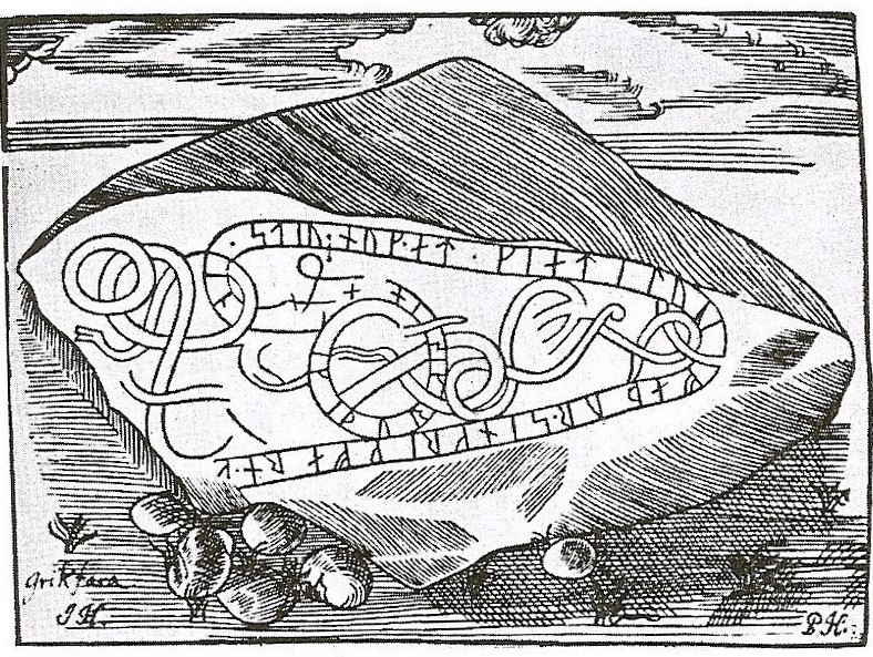 Image of runestone U 270 drawn by J. Hadorph and P. Helgonius for Peringskiöld's Monumenta. Former location.